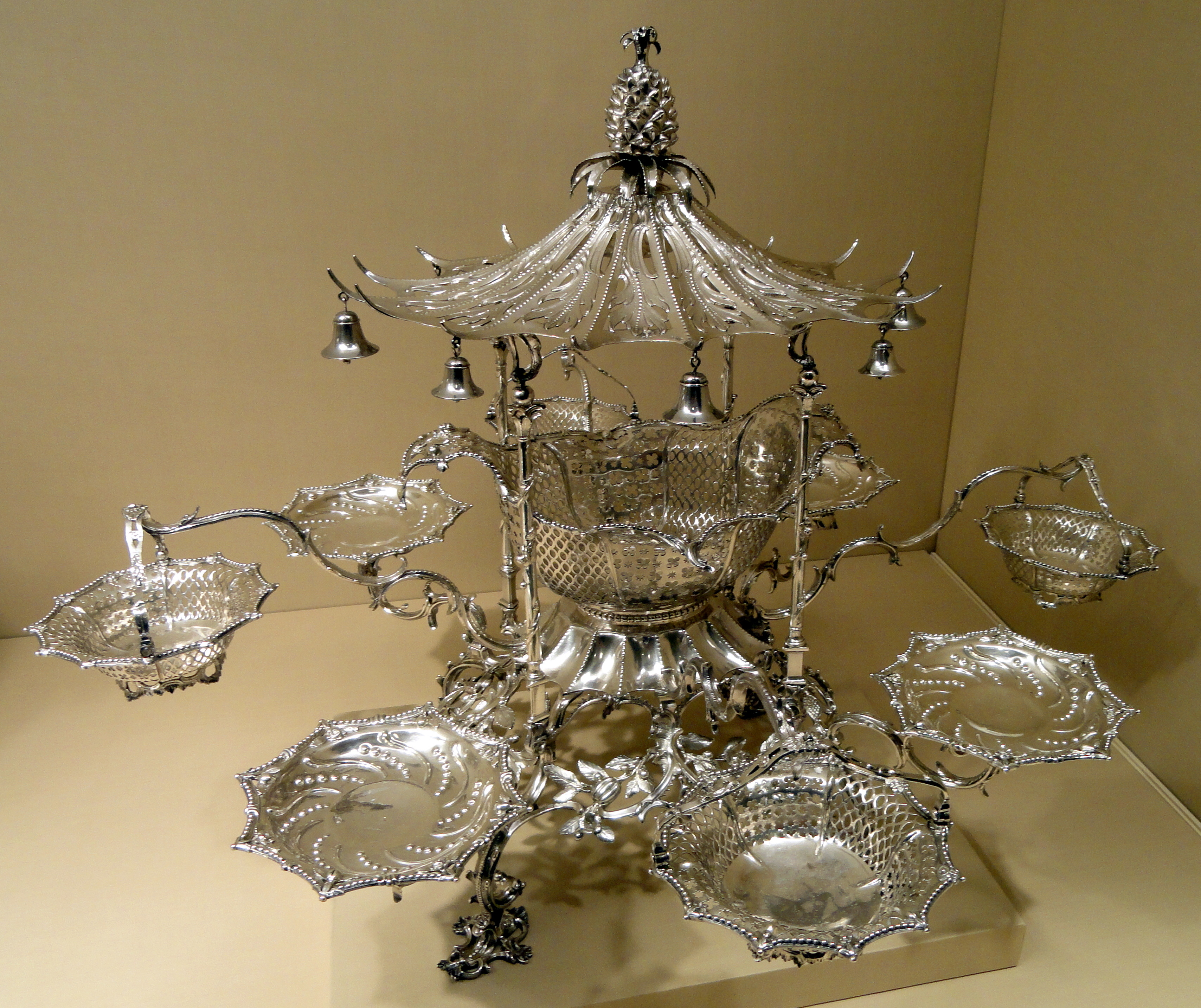 Exhibit in the Nelson-Atkins Museum of Art, Kansas City, Missouri, USA. This item is old enough so that it is in the public domain. ; I took this photograph and release it into the public domain.